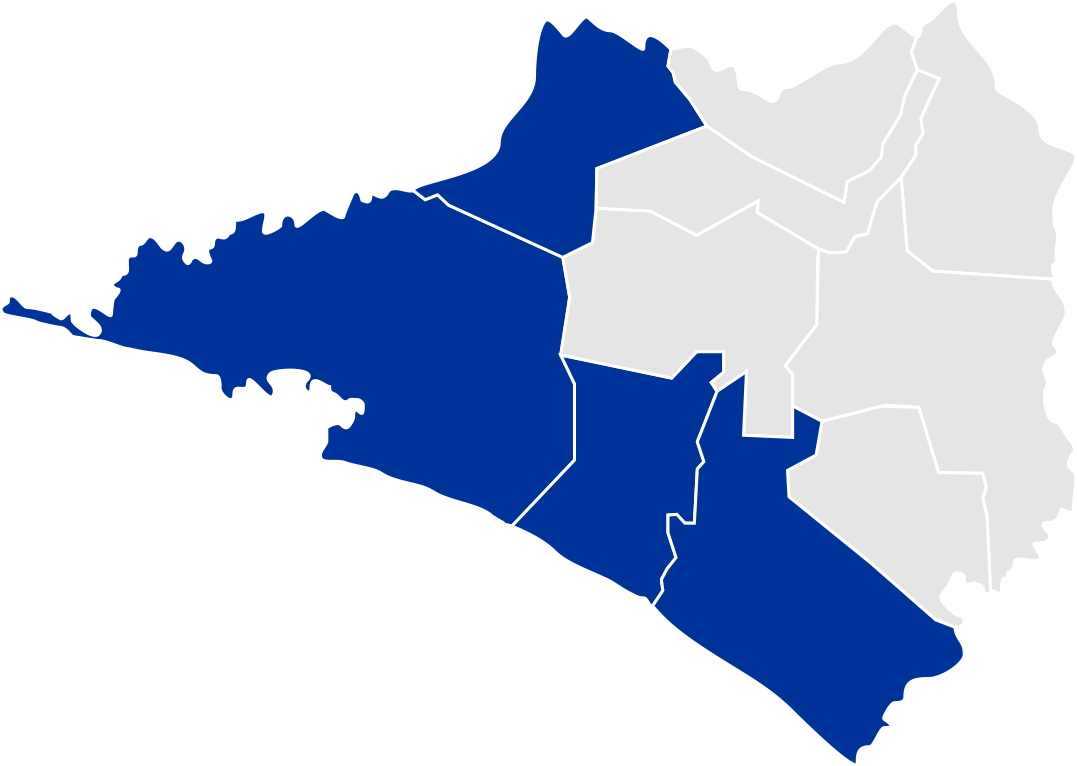 Map of the Second Federal Electoral District of the State of Colima, México.